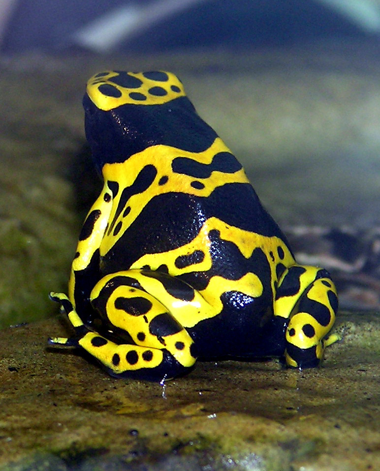 Yellow-banded Poison Dart frog Dendrobates leucomelas at Bristol Zoo, Bristol, England. Photographed by Adrian Pingstone in May 2005 and released to the public domain.